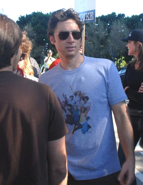 American actor Zach Braff at a protest during the 2007 WGA strike.